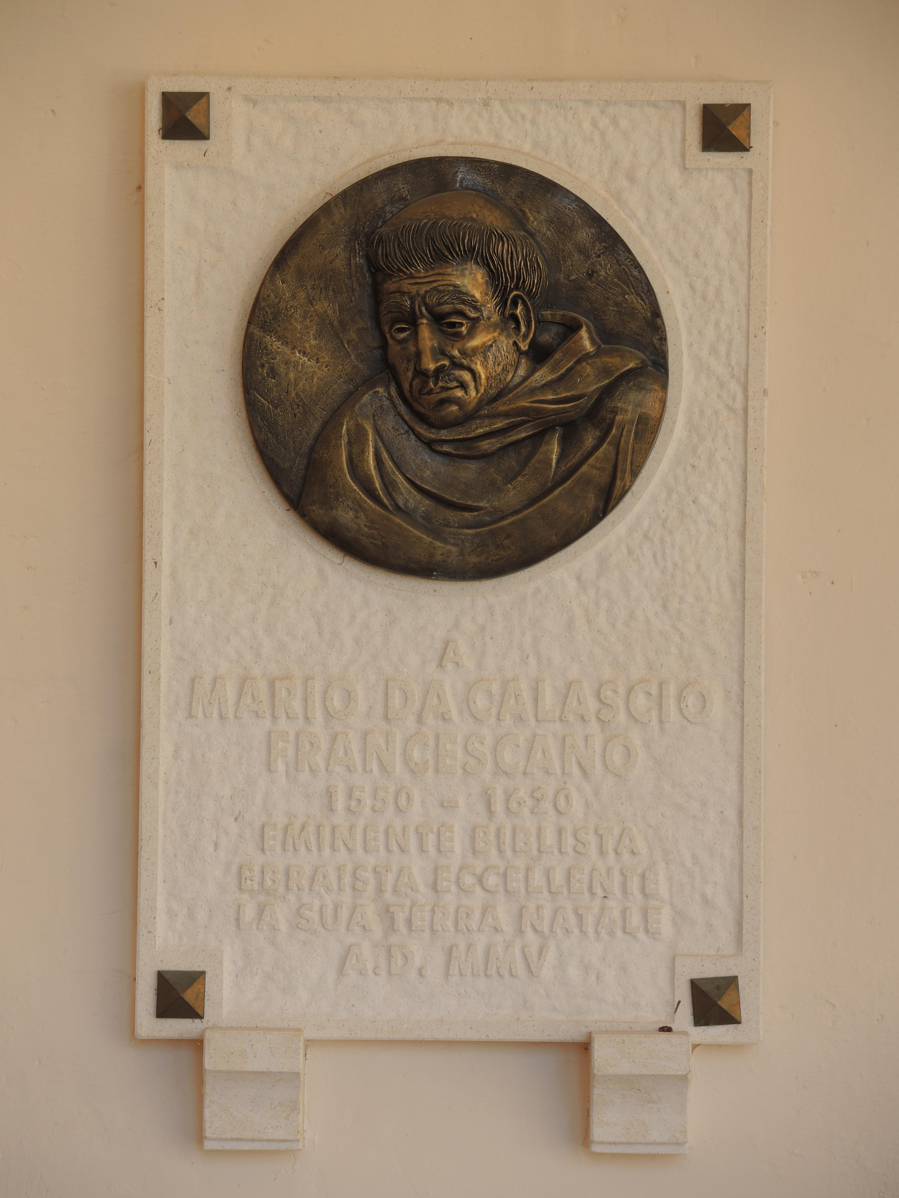 Calascio - Santa Maria delle Grazie: commemorative plaque for Mario da Calascio